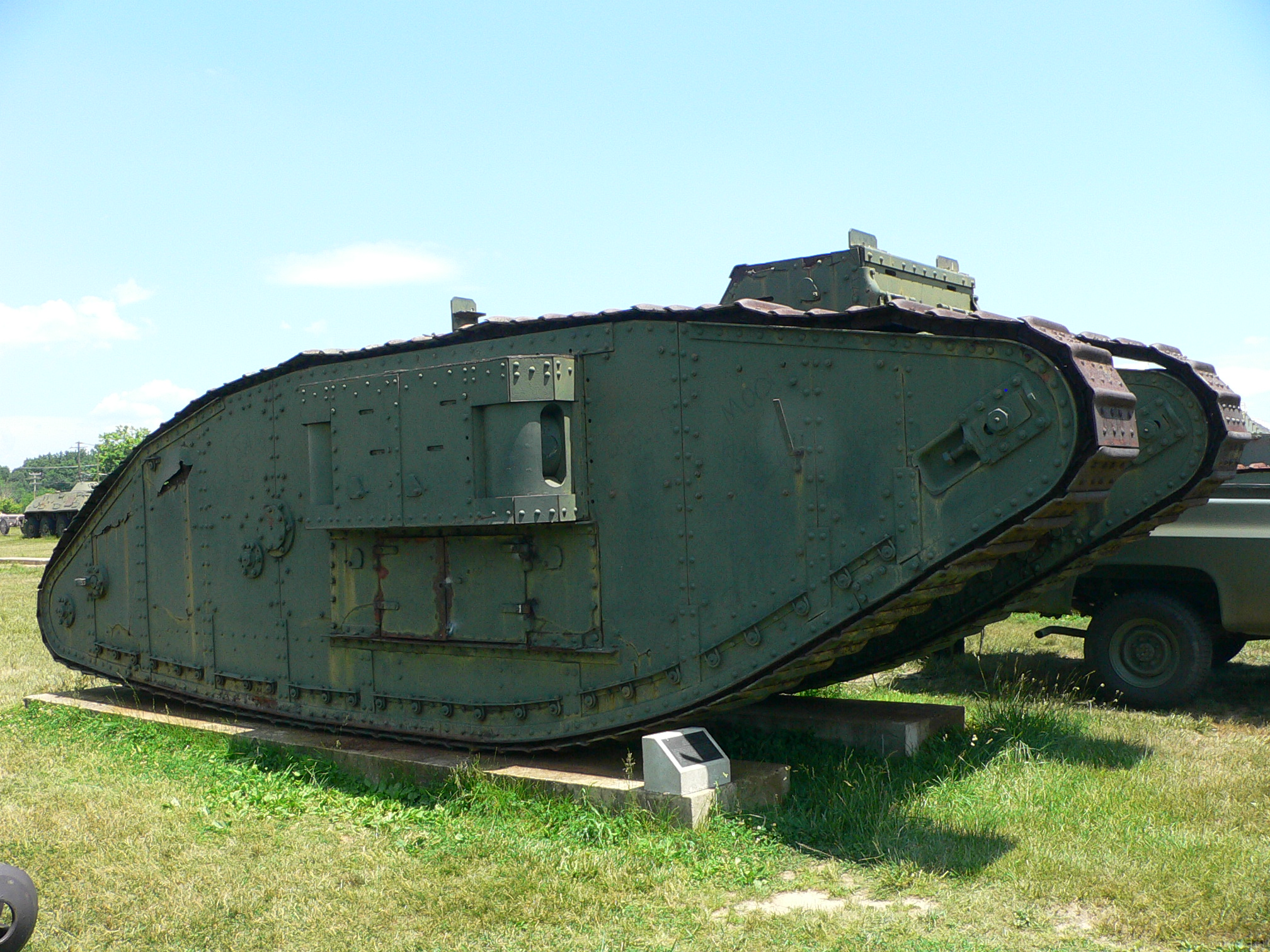 British Mk IV female tank displayed at the United States Army Ordnance Museum (Aberdeen Proving Ground, MD)